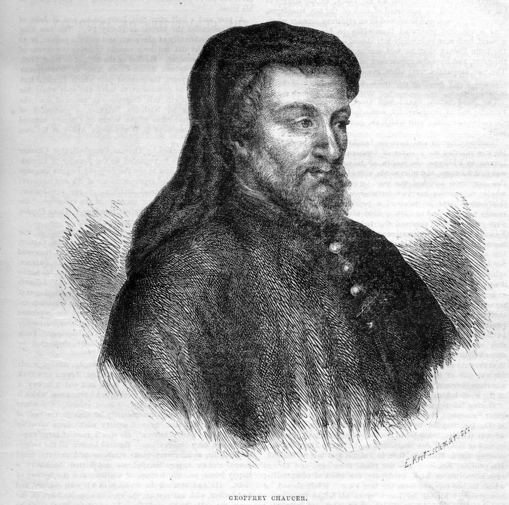 Geoffrey Chaucer. 19th century image. From The Illustrated Magazine of Art. 1:1 (ca. 1853). Note: This publication was a precursor of "The Magazine of Art" (1878-1904).